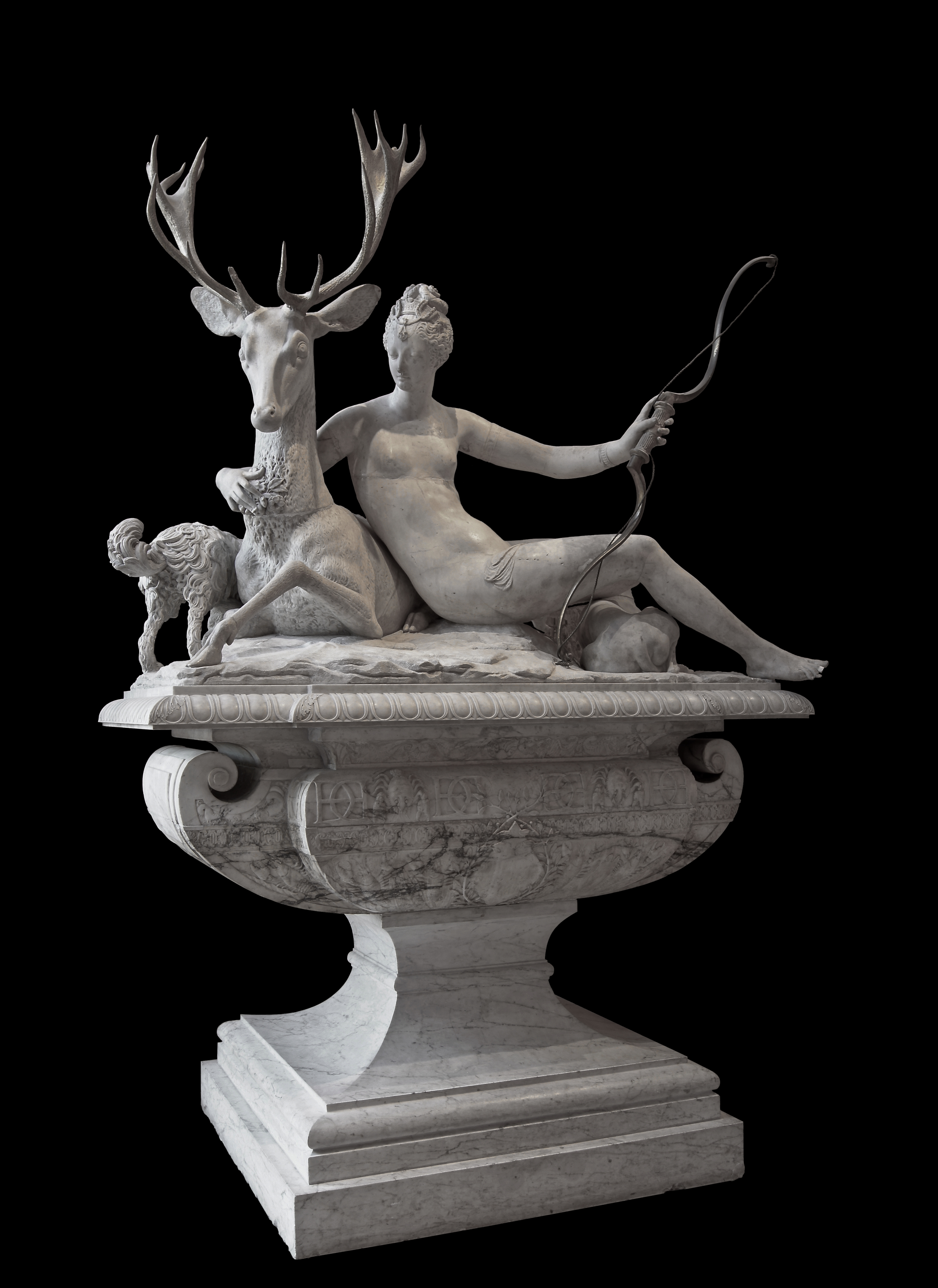 Top part of the fountain